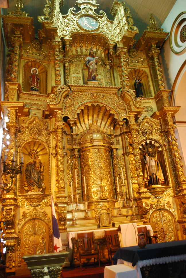 Altar de Oro, the golden altar, in the San José Church, Panama City.